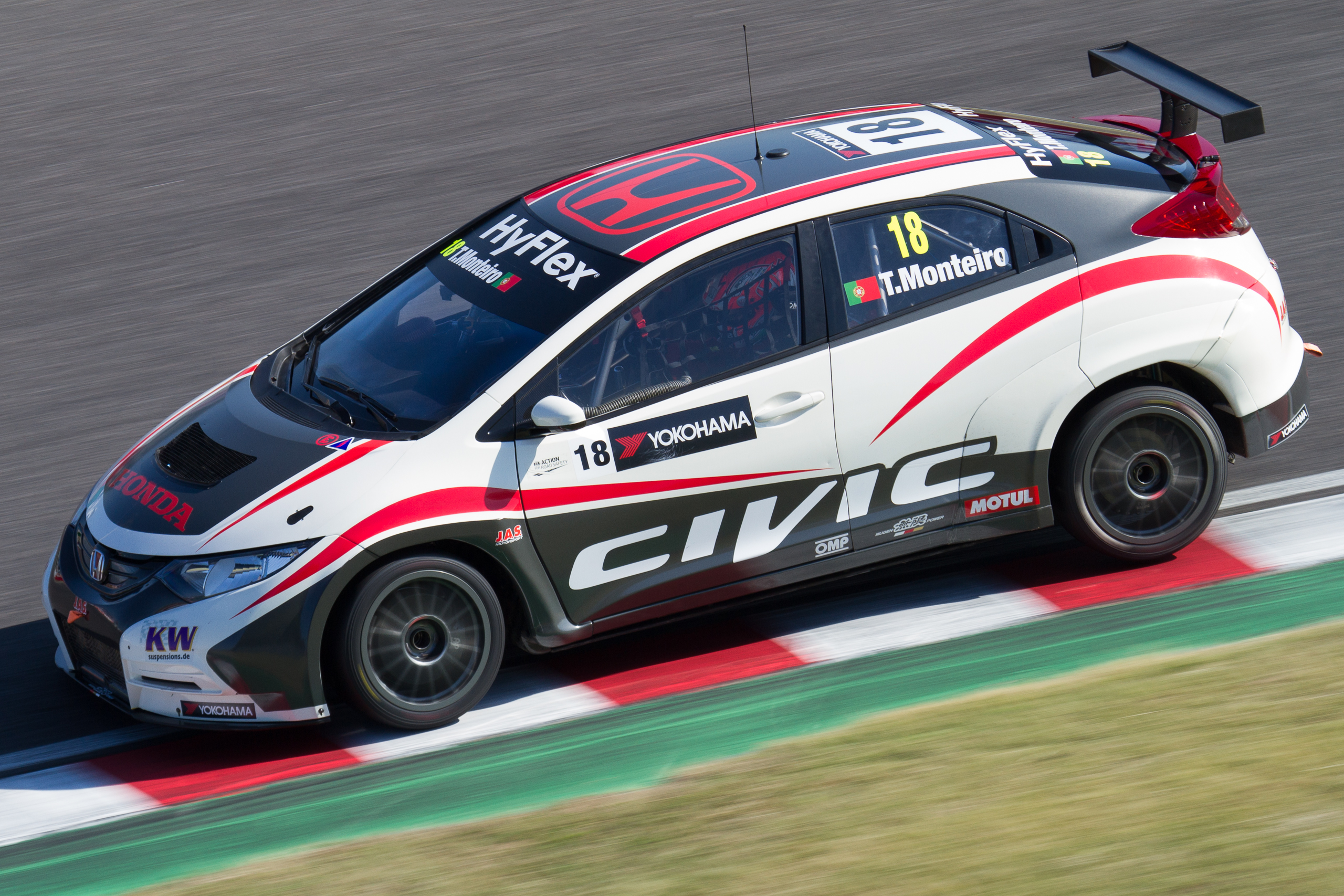 World Touring Car Championship 2012 Race of Japan: Tiago Monteiro (Honda Racing Team JAS) driving the Honda Civic WTCC